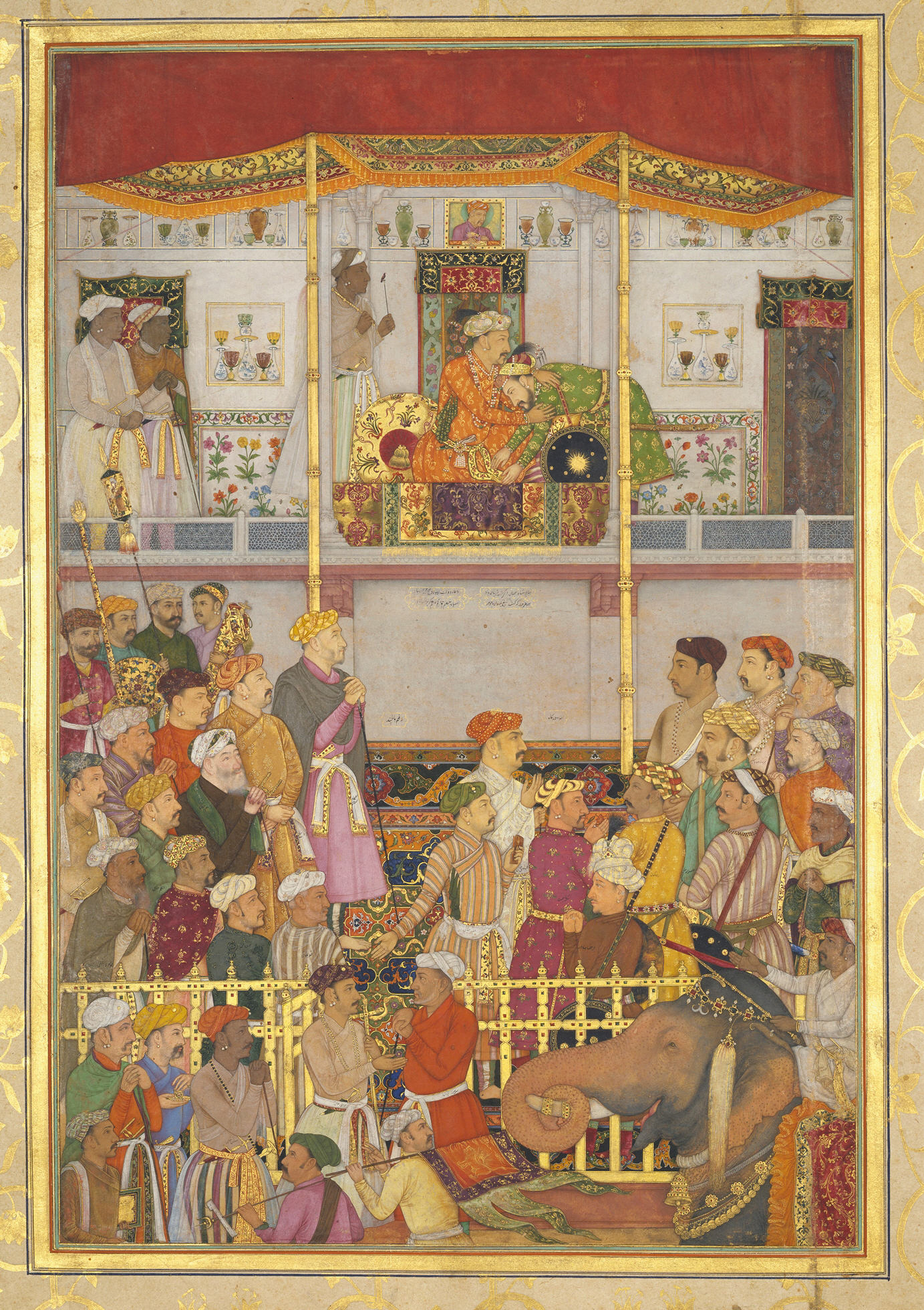 Jahangir Receives Prince Khurram at Ajmer on His Return from the Mewar Campaign: Page from the Windsor Padshahnama Balchand (active 1595–ca. 1650) Date: ca. 1635 Culture: India (Mughal court at Lahore or Daulatabad) Medium: Opaque watercolor and gold on paper Dimensions: Page: 22 15/16 x 14 7/16 in. (58.2 x 36.7 cm) Image: 11 15/16 x 7 15/16 in. (30.4 x 20.1 cm) Mounted: 32 x 24 in. (81.3 x 61 cm) Framed: 35 3/4 x 27 11/16 x 1 in. (90.8 x 70.4 x 2.6 cm) Classification: Painting Credit Line: Lent by Her Majesty Queen Elizabeth II Accession Number: SL.17.2011.13.1 Rights and Reproduction: The Royal Collection © 2011 Her Majesty Queen Elizabeth II/ The Bridgeman Art Library